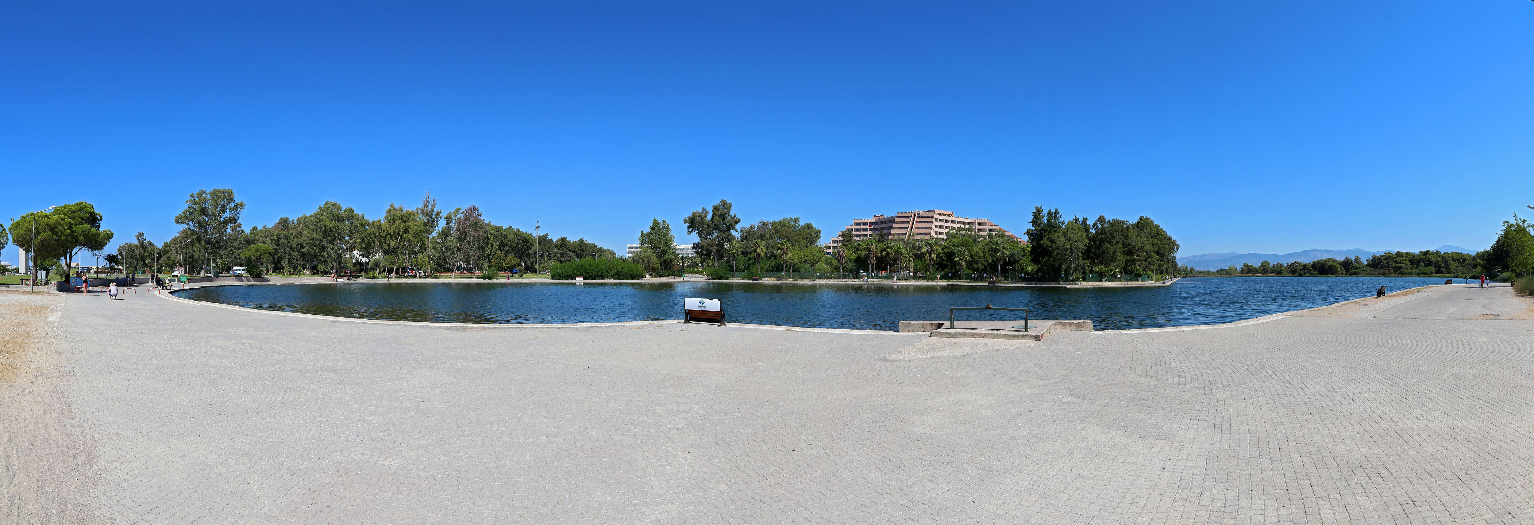 Titreyengol lake